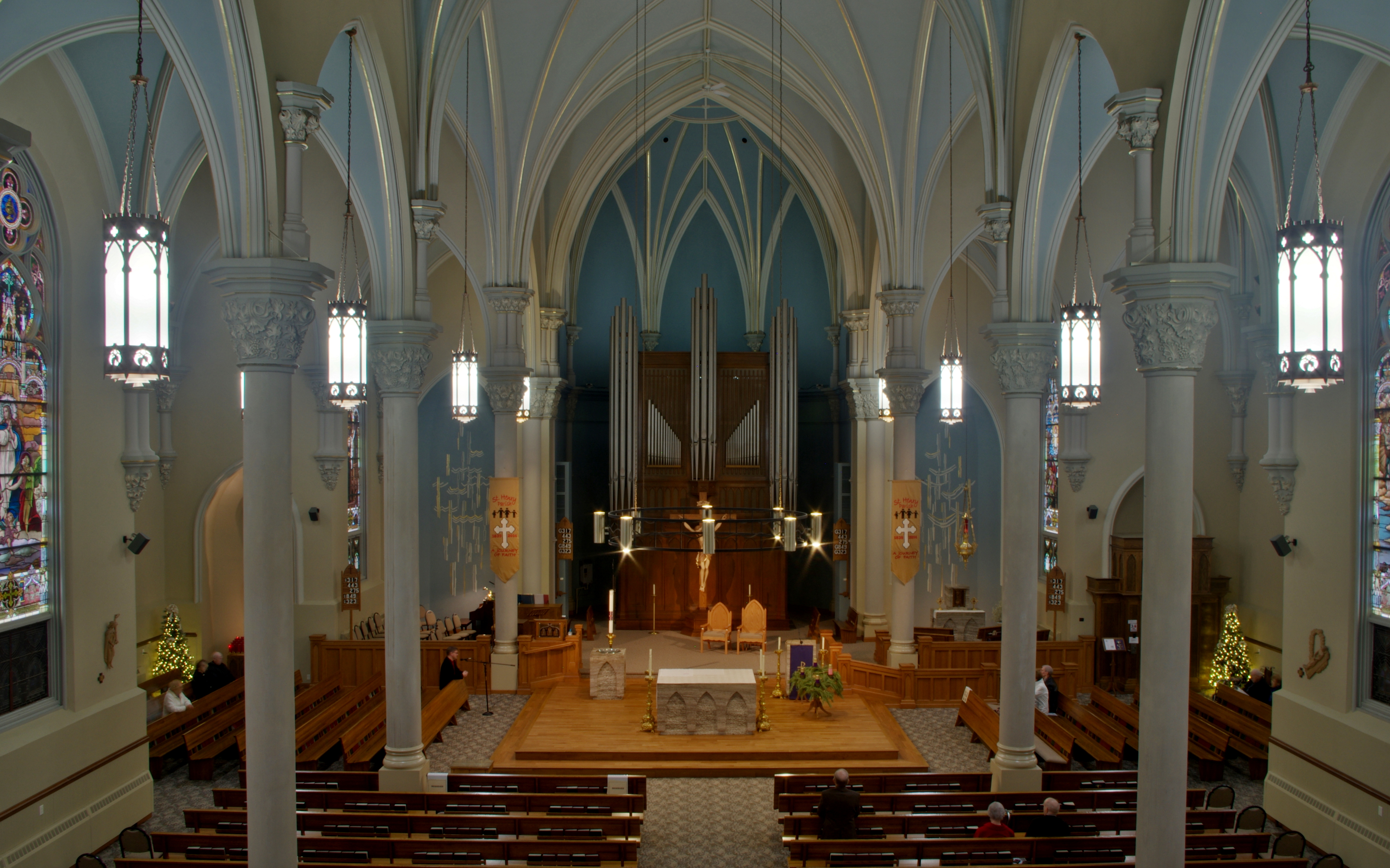 Saint Henry Catholic Church (St. Henry, Ohio) - nave decorated for Advent 2013, view from the loft